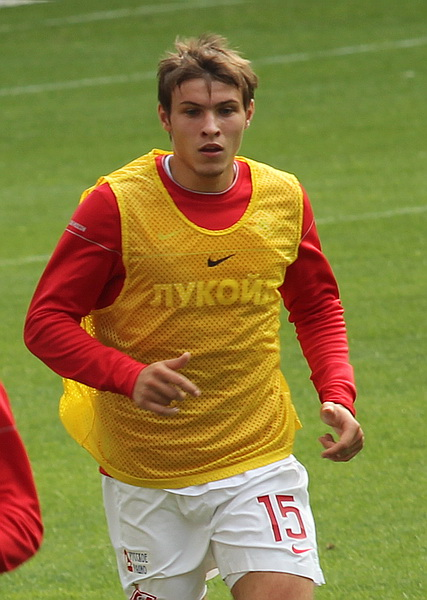 Sergey Parshivluk